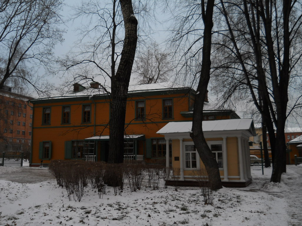 Leo Tolstoy's Museum in Moscow, main building in winter.